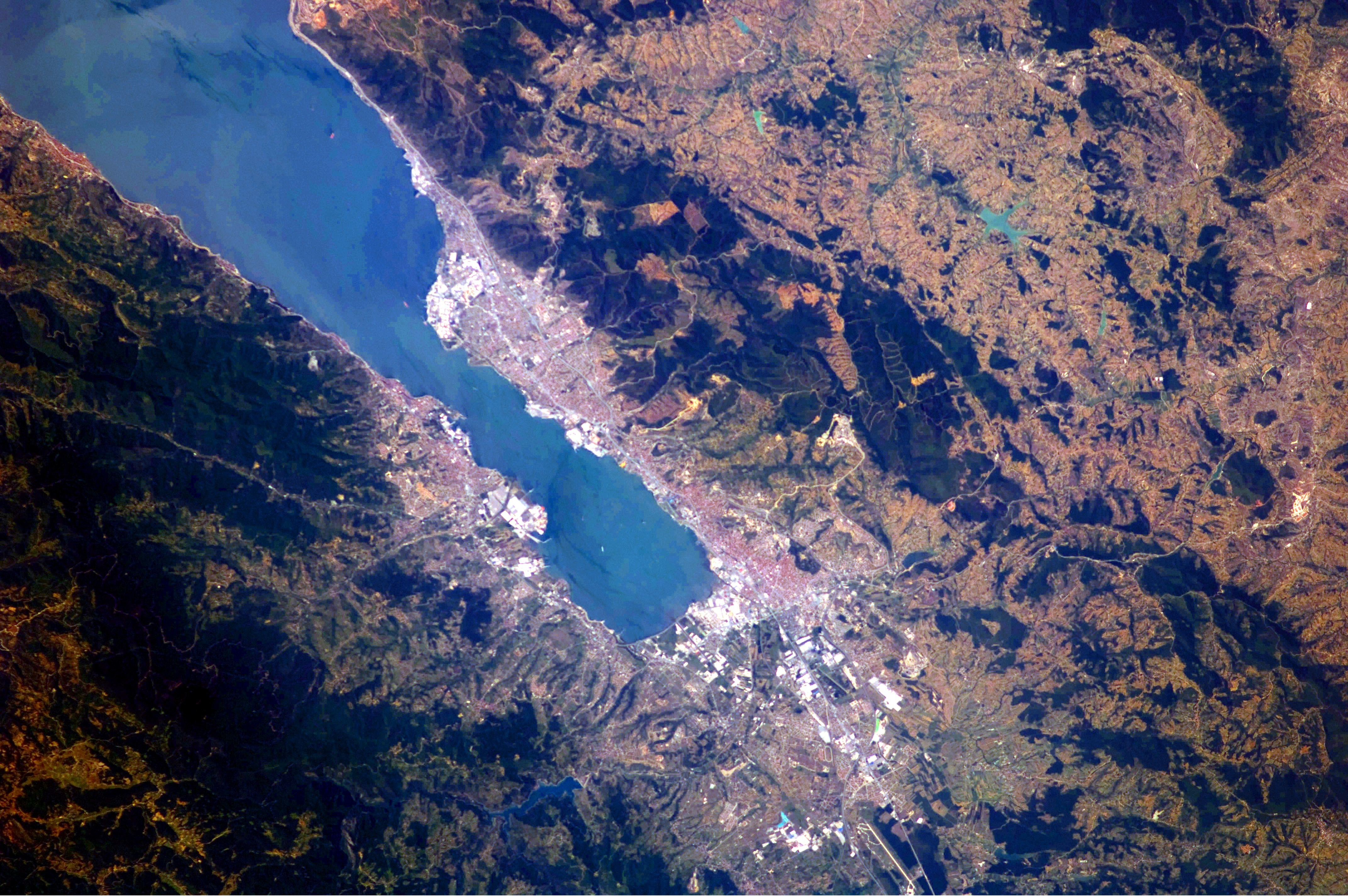 This astronaut photograph highlights the metropolitan area of Izmit along the northern and eastern shores of the Sea of Marmara, at the end of the Gulf of Izmit. Commercial and industrial centres—including petroleum refineries and automobile factories—are recognizable by large structures with white rooftops. The smaller city of Gölcük on the southern shoreline of the Gulf is the location of a Turkish naval facility and another automobile factory. Both urban areas are built primarily on flat lowlands adjacent to the Gulf, with green vegetation marking highland areas to the north of Izmit and south of Gölcük.